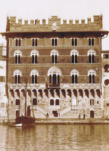 Elba Island - Adolfo Coppedè 1904